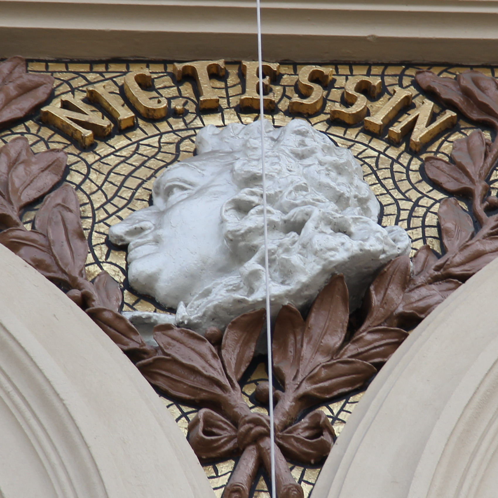 Medallion portrait sculptures on the main facade of the Ateneum Art Museum, Helsinki, Finland. Portrait of swedish architect Nicodemus Tessin the Younger by Ville Vallgren, unveiled in 1887.